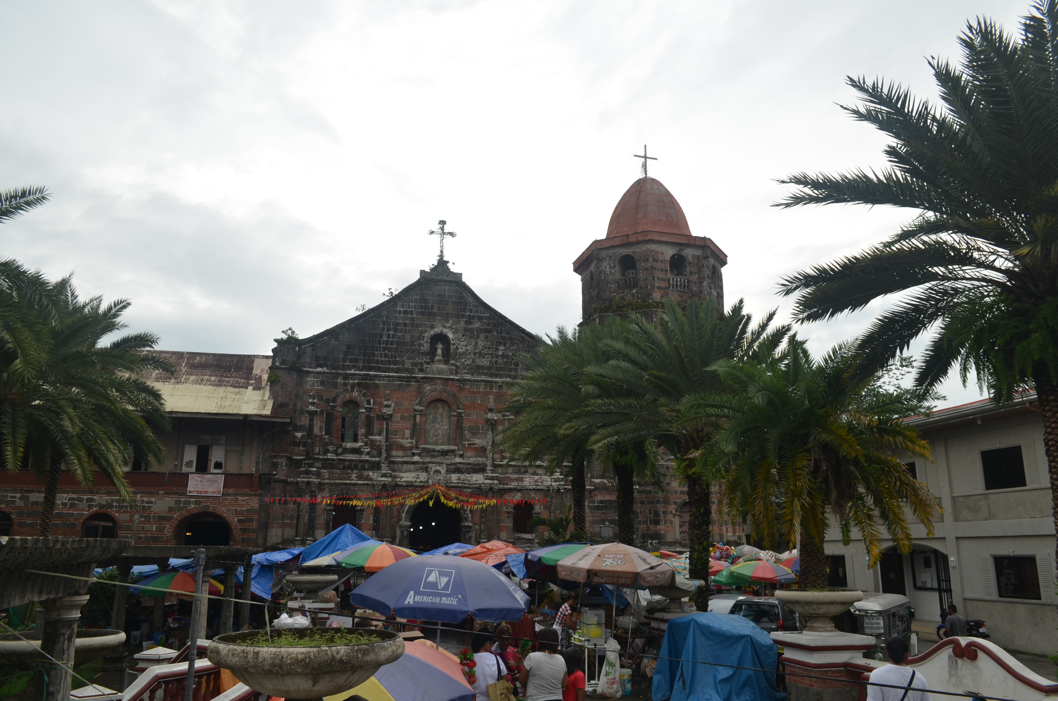 Nagcarlan Church